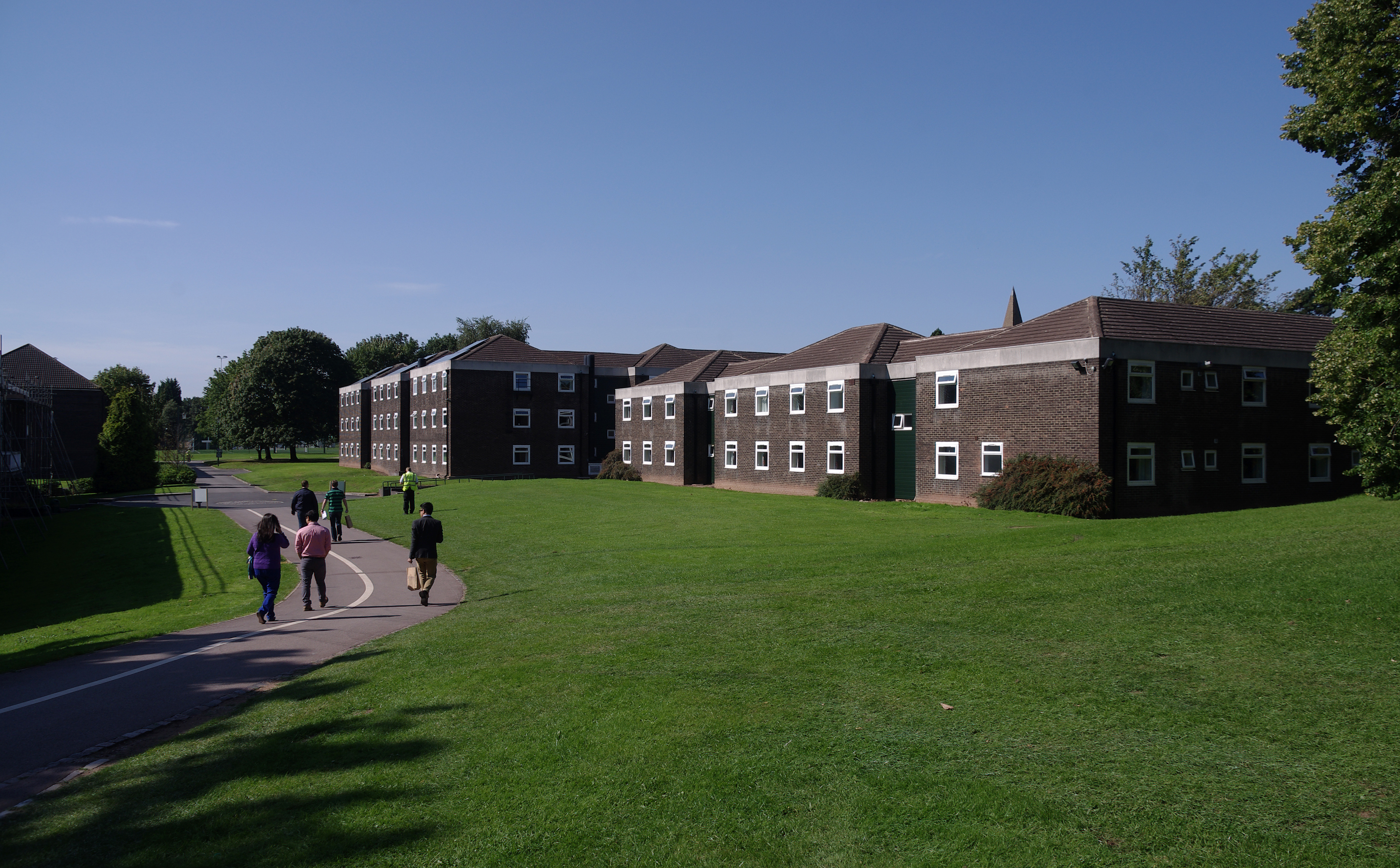 Sherwood Hall on a sunny day at the University of Nottingham.